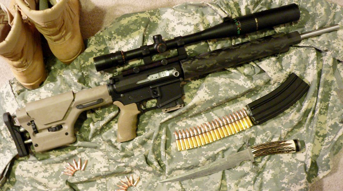 See the Wikipedia page concerning this cartridge: en:6.5 Grendel Photo by Rob Berg, Use granted external to Wikipedia with photo link to and acknowledgement "Photo by Rob Berg", within Wikipedia use is unlimited. The knife is a Stek 10" blade Damascus by Craig Steketee and Son; The Scope is a Bushnell Elite 4200 Firefly 8-32x40; The Scope mount is a B-Square AR see-through mount; The large magazine is a HK 30 round 5.56 mag which will hold and reliably feed 20 Grendel rounds; (note the dedicated Grendel magazines are the same size and hold 26 rounds); The loose bullets are Barnes 120gr TSX and Sierra 120gr HPBT; The stock is a MagPul; The handguard is a Briley Carbon Fiber; The upper is a prototype by Competition Shooting Sports for the 20" Grendel Counter Sniper (GCS) (bolt and barrel for GCS build supplied by Alexander Arms); The lower is an Alexander Arms 6.5 Grendel lower receiver Use permitted external to Wikipedia with link to and acknowledgement "Photo by Rob Berg", within Wikipedia use unlimited.